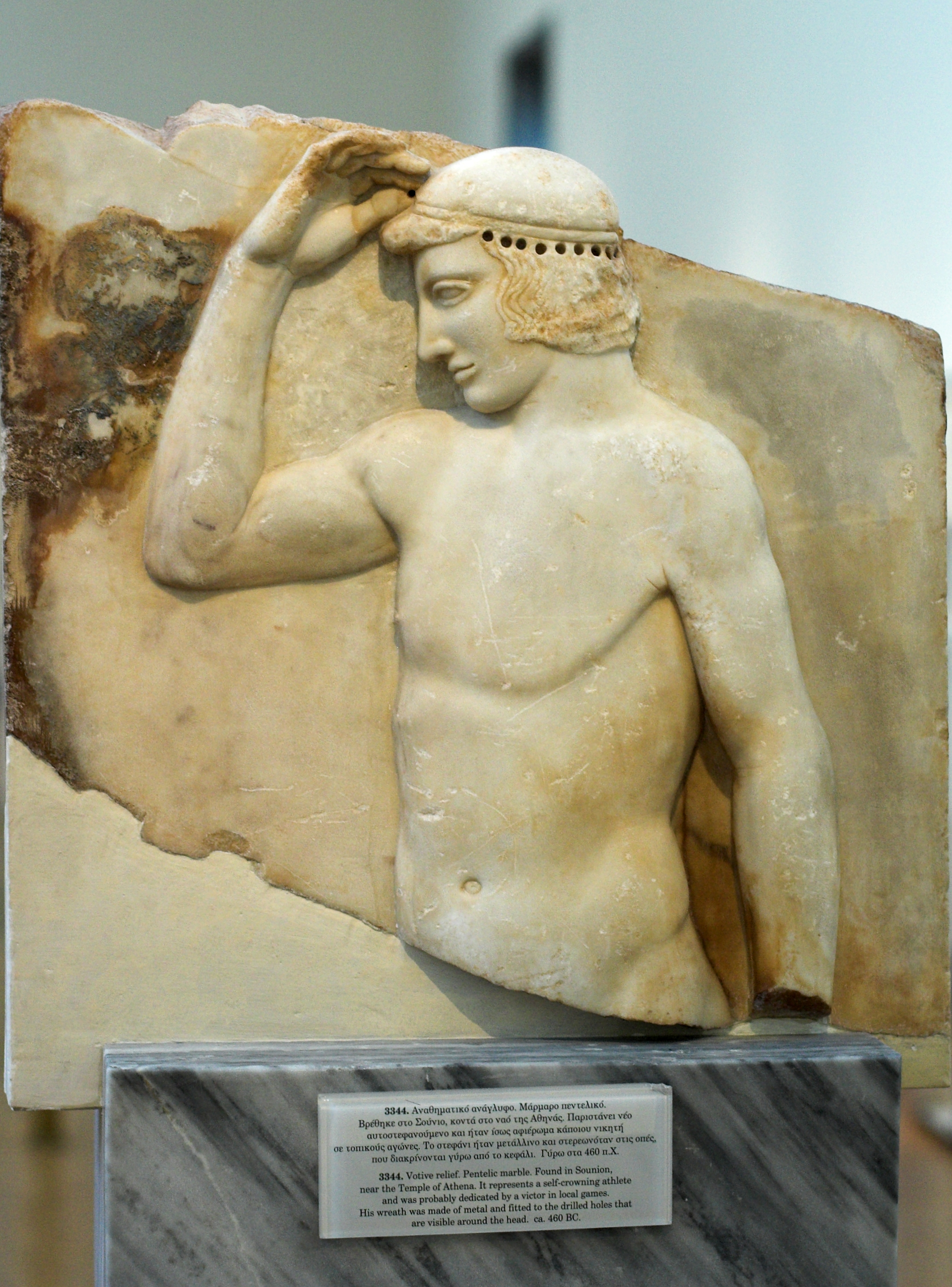 Reliefː the self-crowning athlete or ephebe, probably the winner of the local games, pentelic marble, circa 460 BC. Finding: near Athena Temple at Cape Sounion. National Archaeological Museum of Athens N 3344.